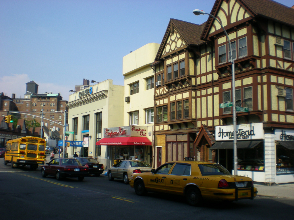 Lefferts Blvd. in the Kew Gardens section of Queens, New York